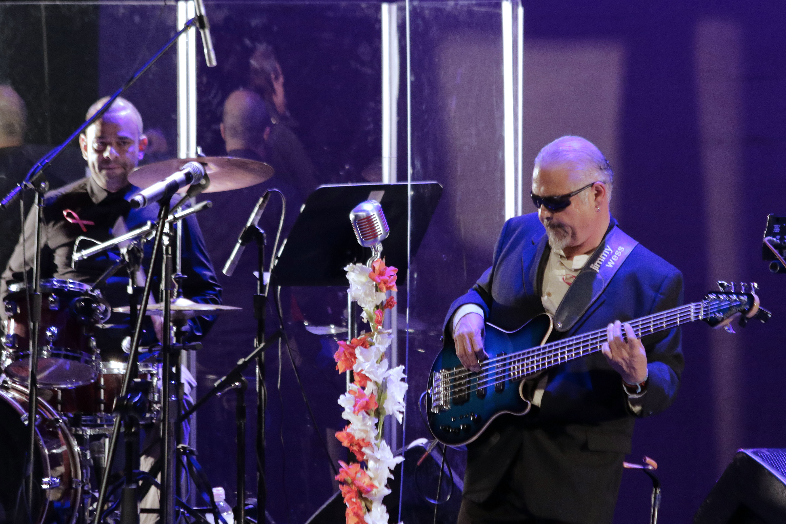 Domingo 4 de agosto de 2018 En el Teatro de la Ciudad Esperanza Iris, se proyectó Vuelta al sol. Rita, el documental, al final de la cinta se ofreció un concierto a cargo de Los Sabinos, en homenaje a la cantante Rita Guerrero. Fotografía: Tania Victoria/ Secretaría de Cultura CDMX